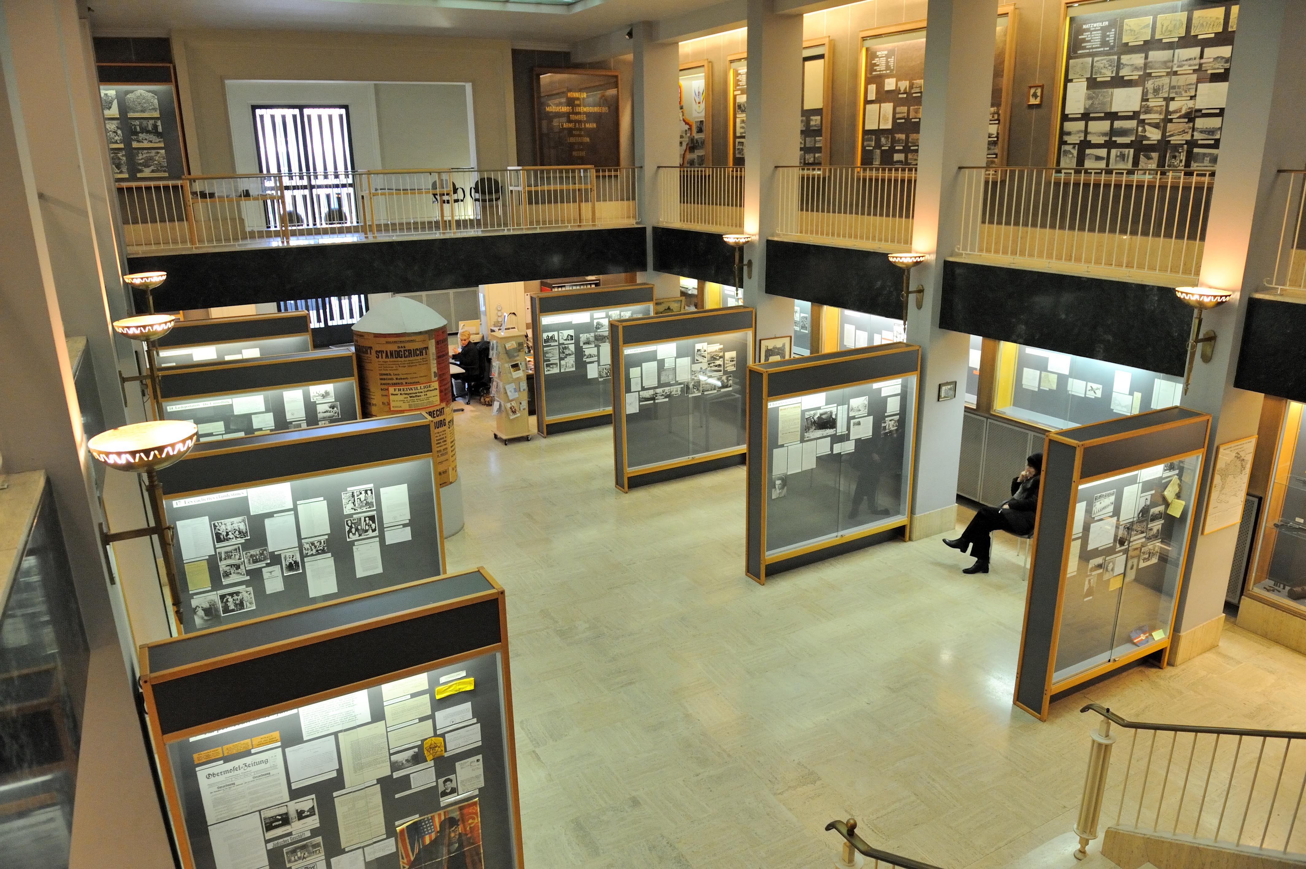 National Museum of Resistance against the occupation of Luxembourg by Nazi-Germany during World War II. Inside the Museum. Exposition.